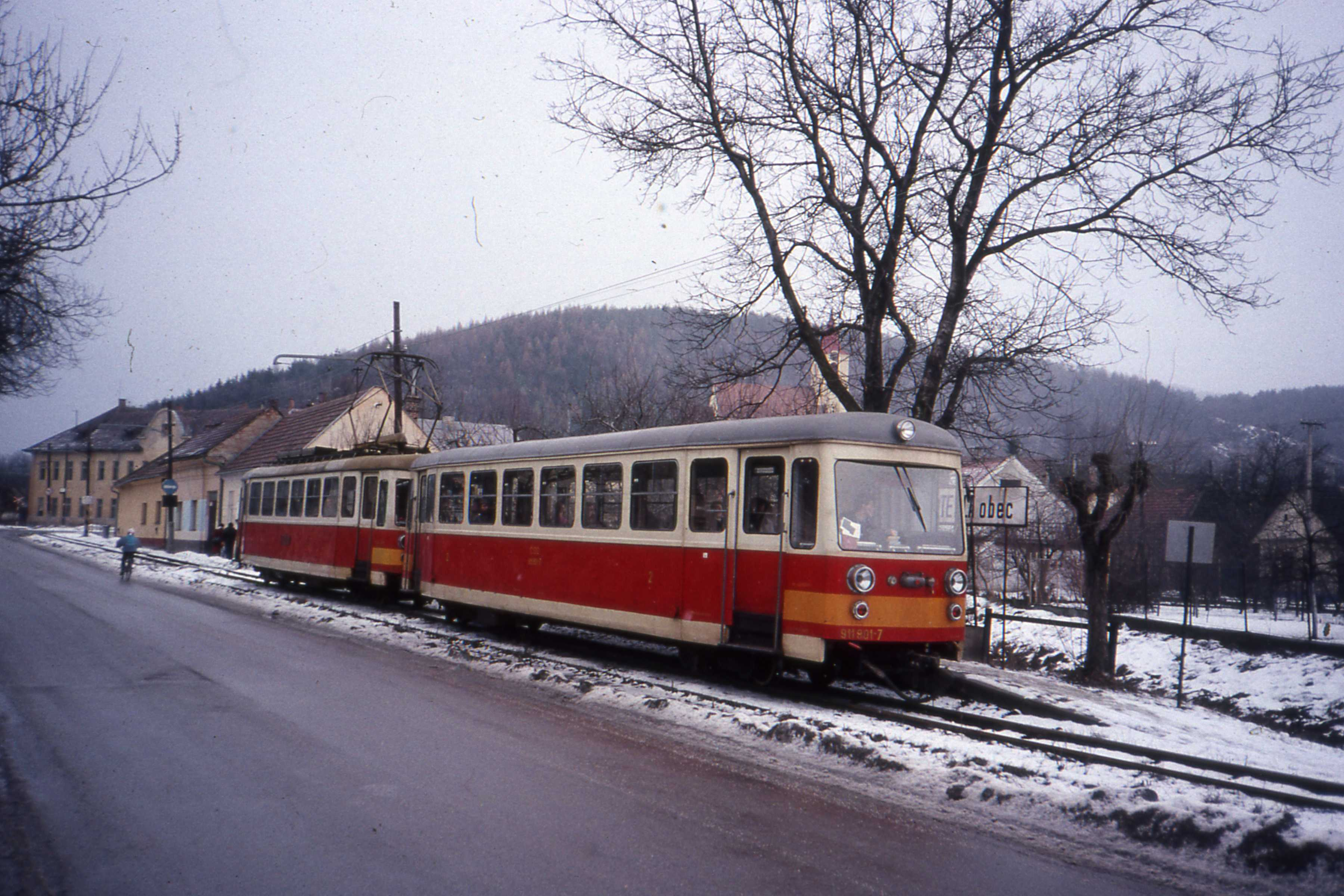 ČSD 911.901 control car in Trenčianska Teplá, former Czechoslovakia